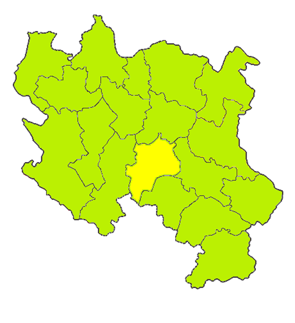 Map of Rasina